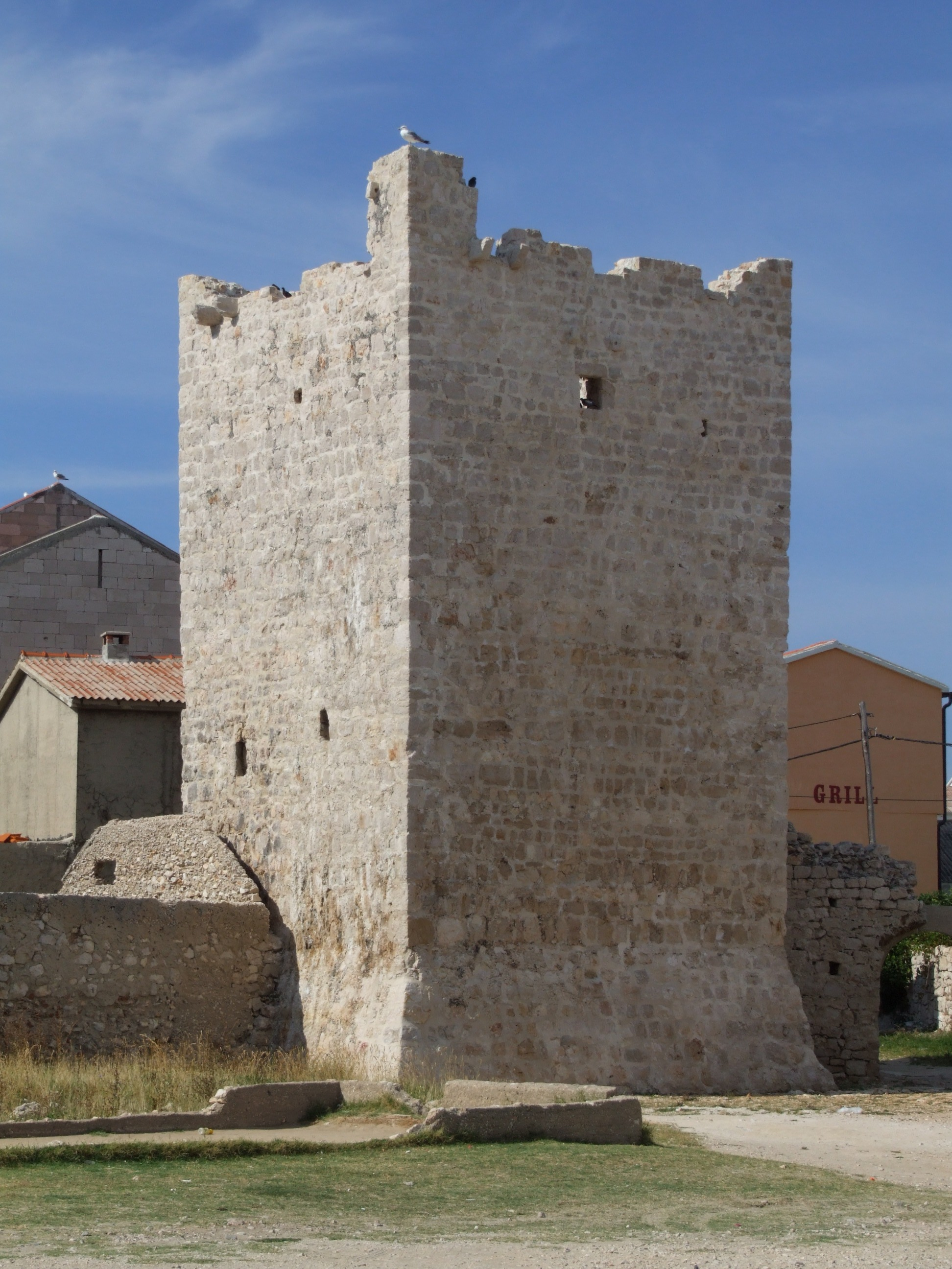 Ražanac, Croatia - wall tower